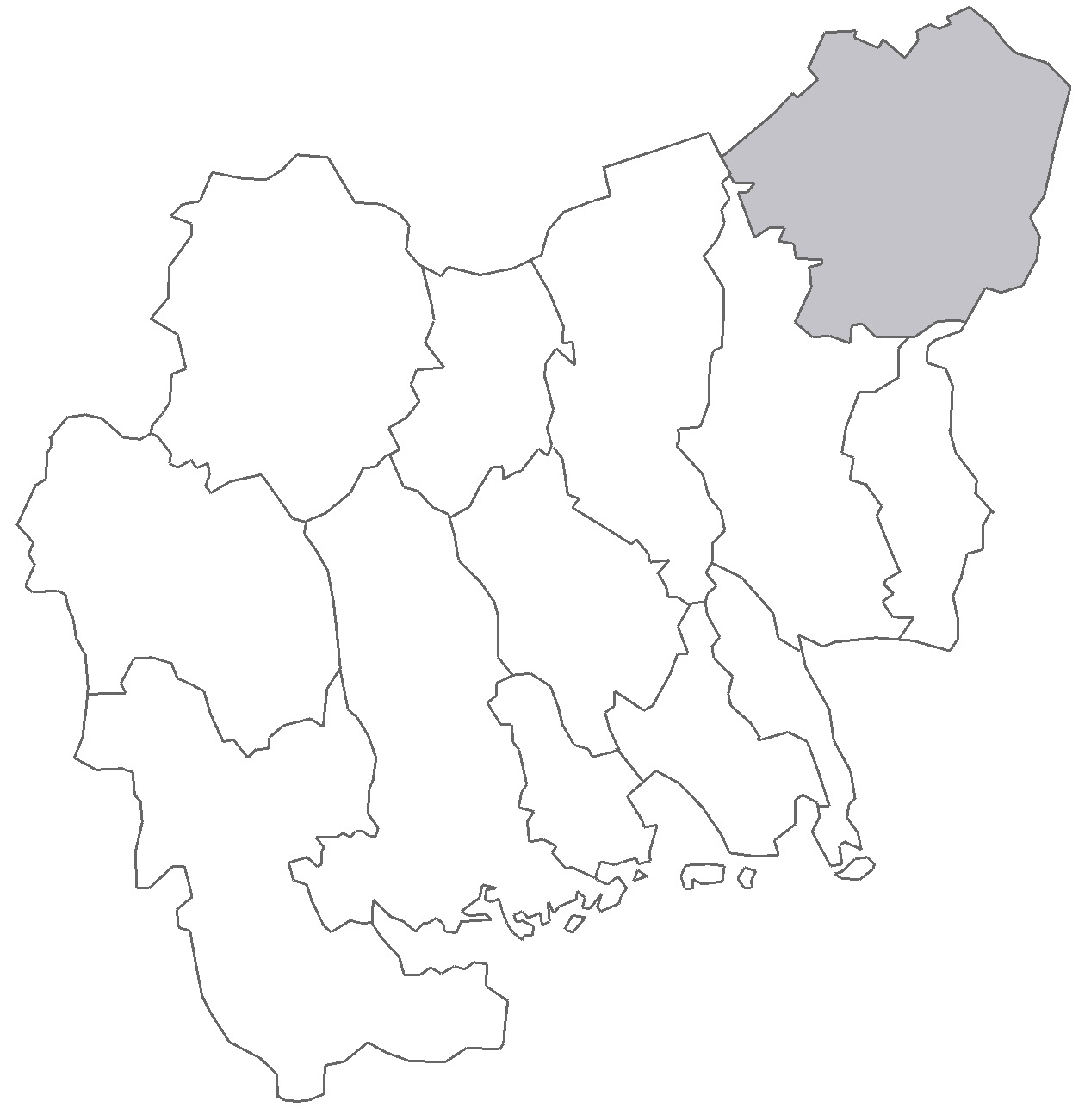 Map describing the location of Våla Hundred in Västmanlands County, Sweden.